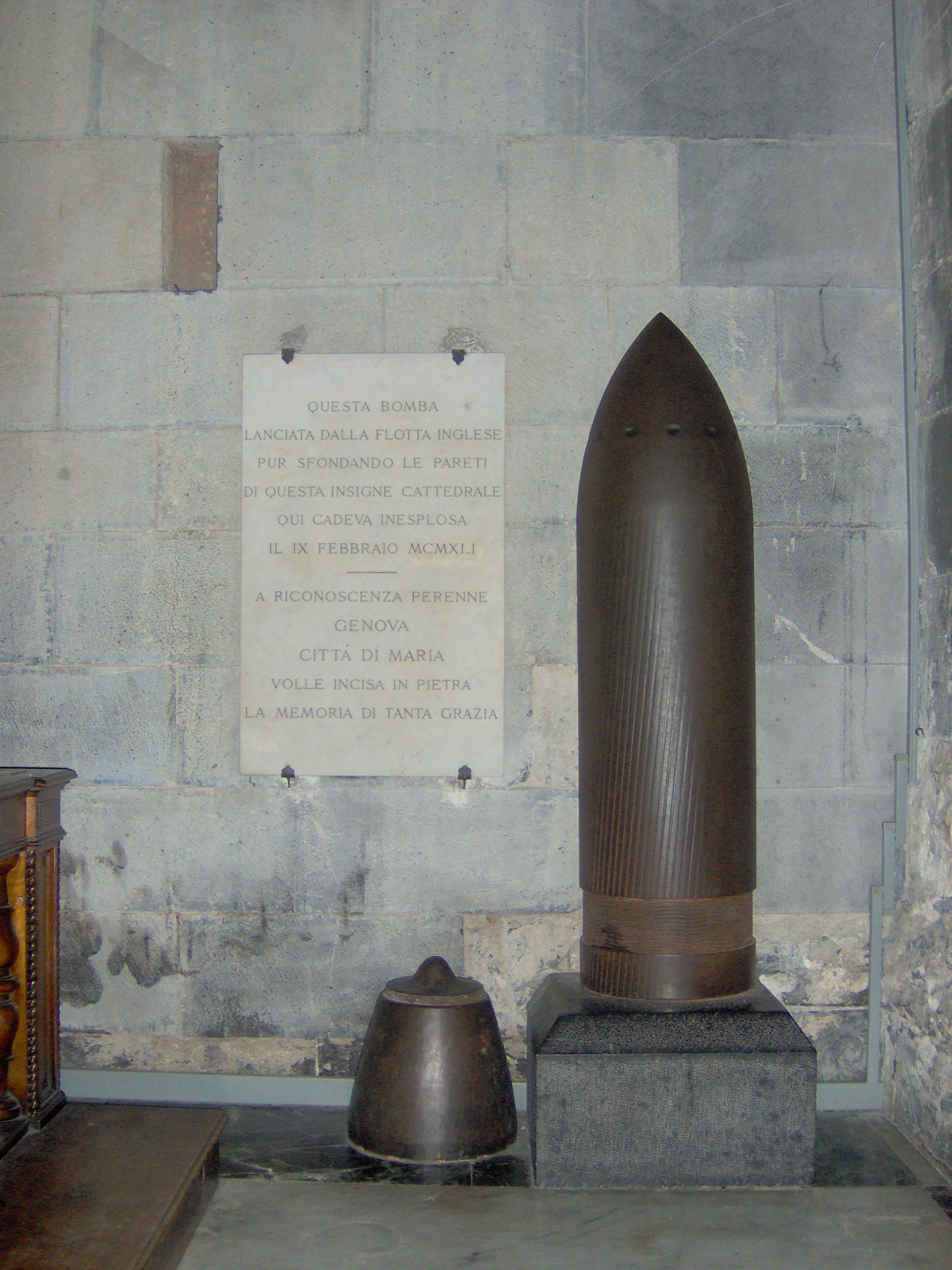 Unexploded 15 inch shell fired by British battleship, HMS Malaya, during Operation Grog, the Bombardment of Genoa, 9th February 1941. In the cathedral, Genoa. An AP shell, with its cap on the floor at left.